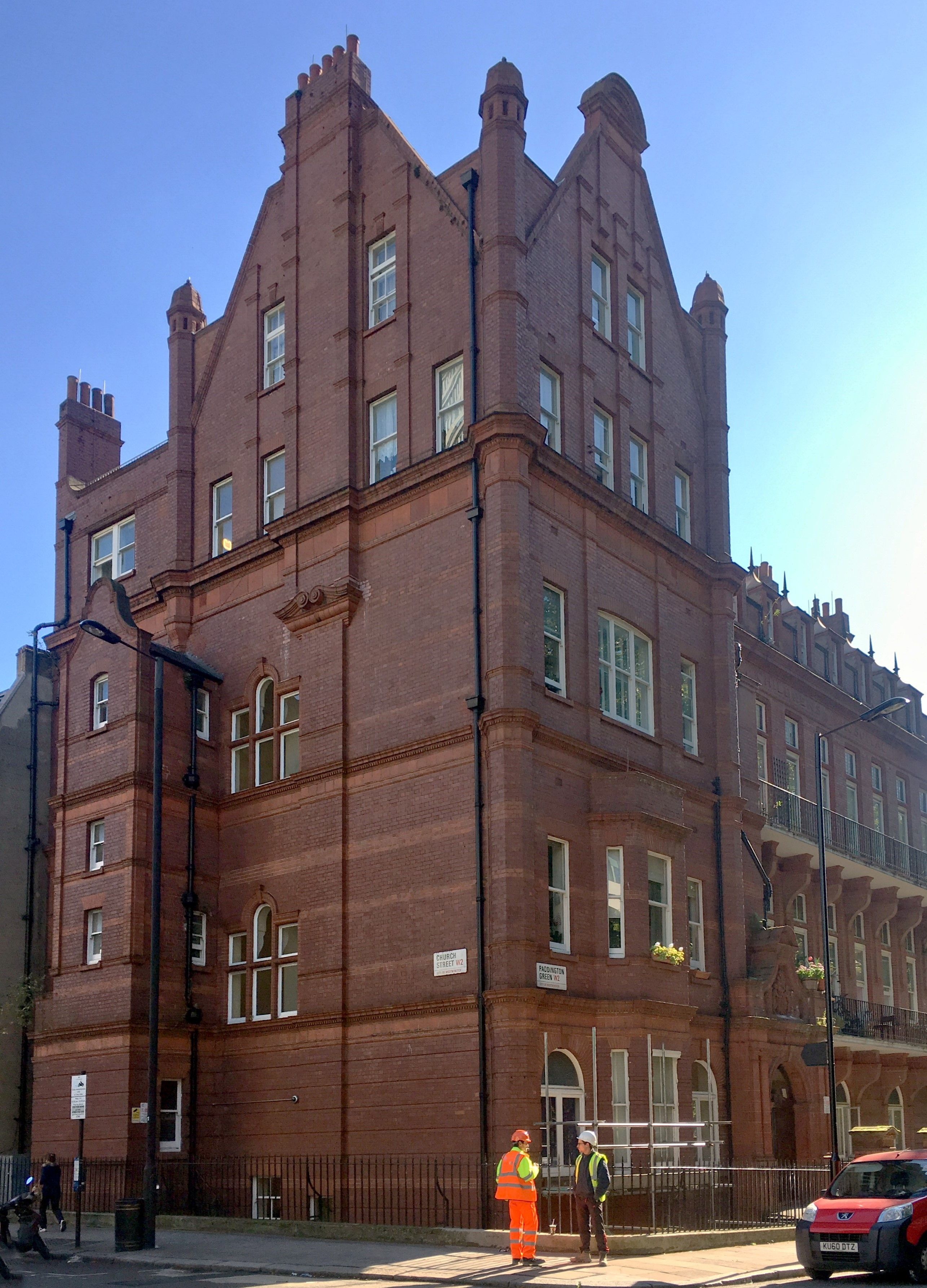 Children's Hospital, Paddington Green Wikidata has entry Q26639966 with data related to this item.